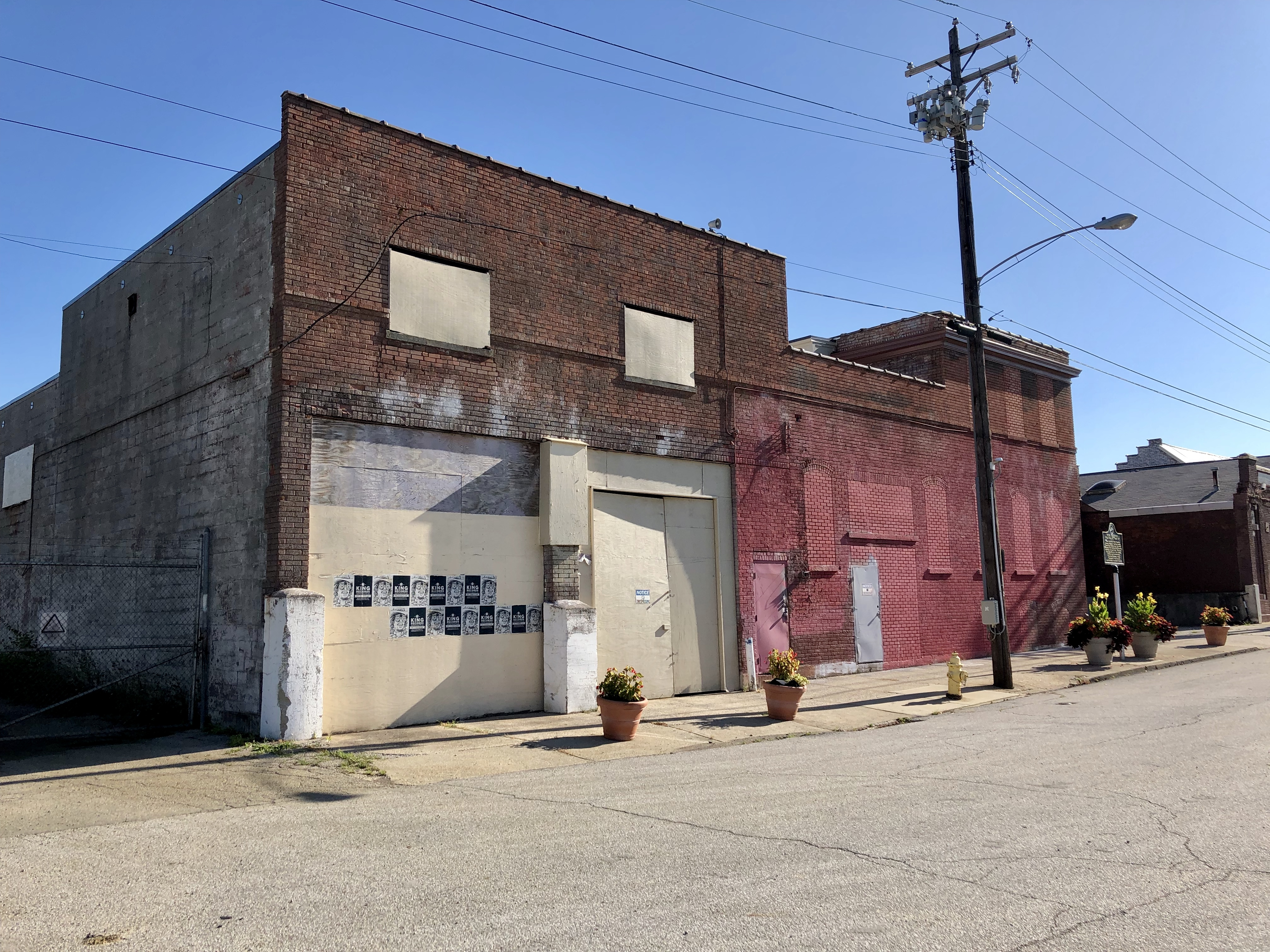 King Records Building, Evanston, Cincinnati, OH.